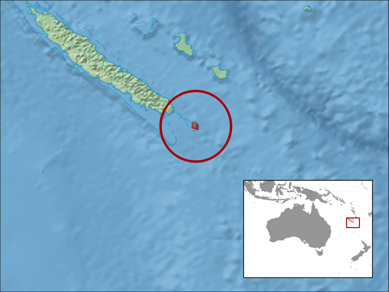 geographic distribution of Celatiscincus euryotis